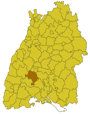 Map of Baden-Württemberg with the former county of Rottweil before 1973